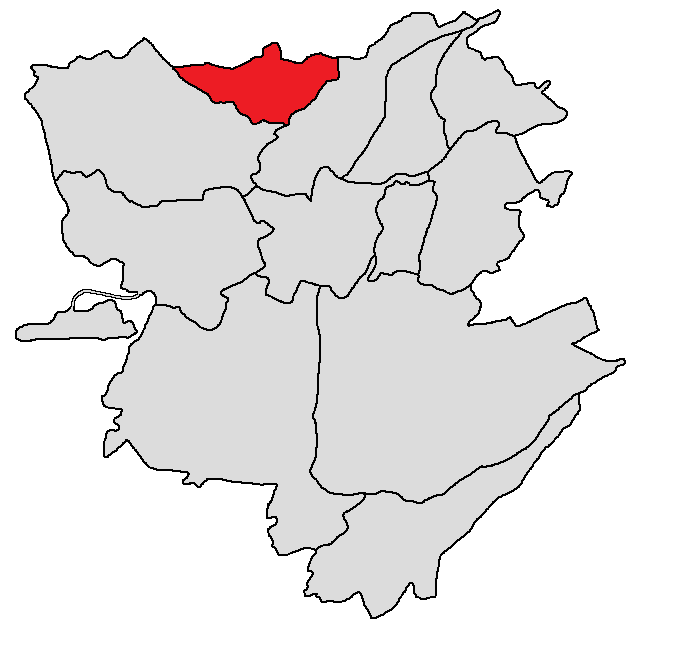 Location of Davtashen district of Yerevan